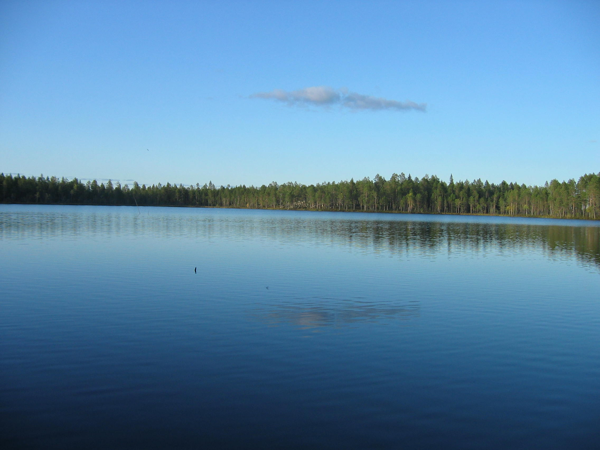 The small lake (pond) Kalliolampi in Puolanka, Finland.